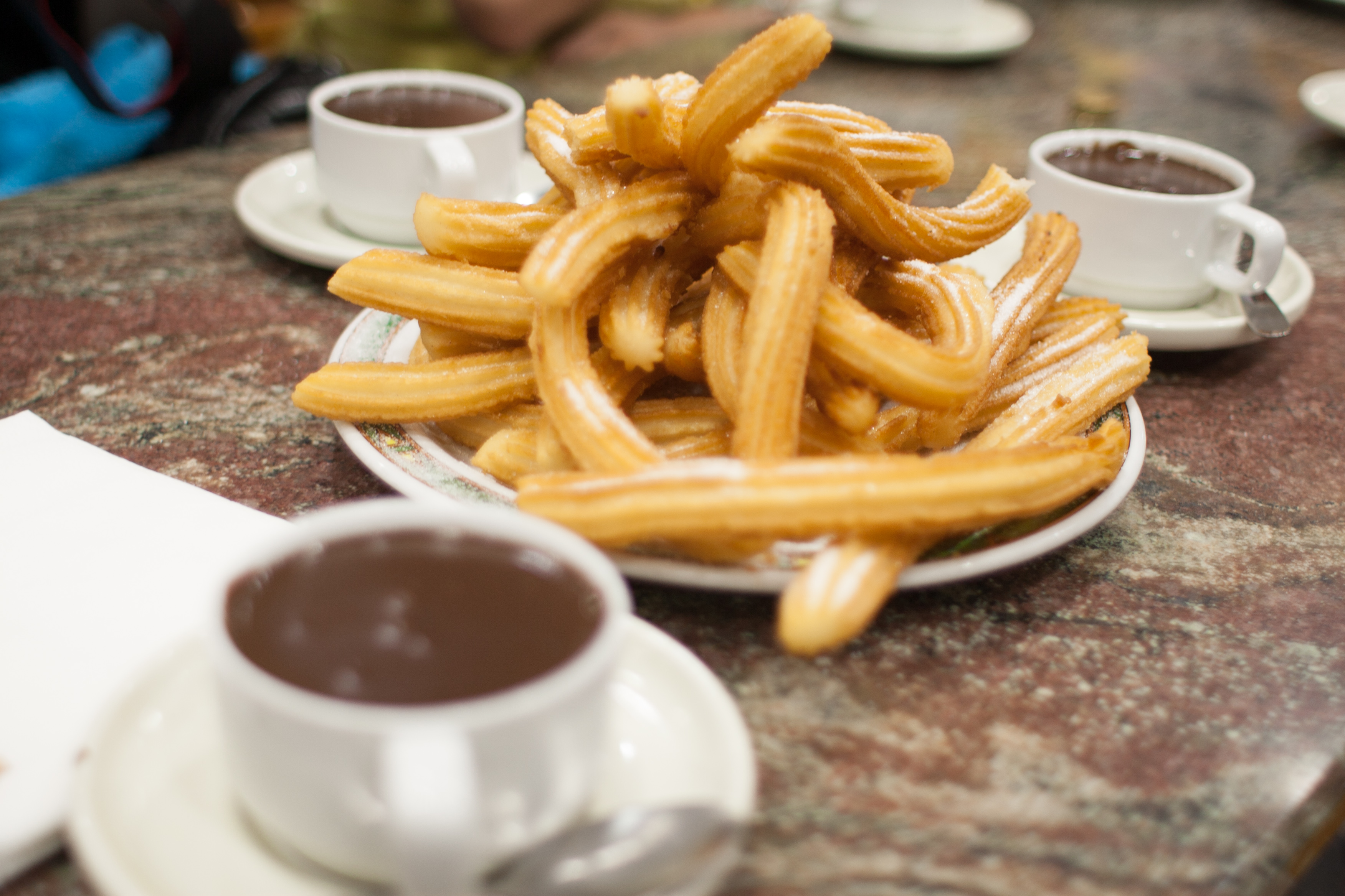 Crispy churros with thick, not-too-sweet chocolate. San Sebastian (Spain)